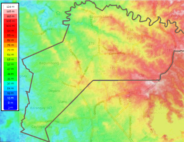 Topographic map of North Caloocan